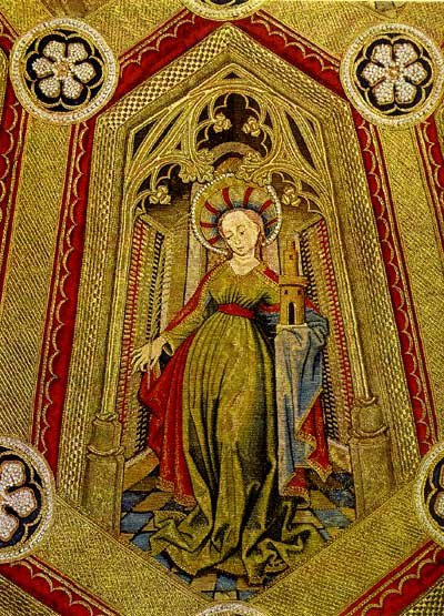 Info, archived here.